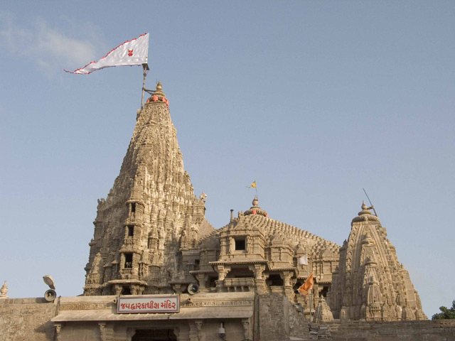 The Dwarakadheesh temple (Dwarakadhish temple/Dwarkadhish temple)at Dwarka, Gujarat, India